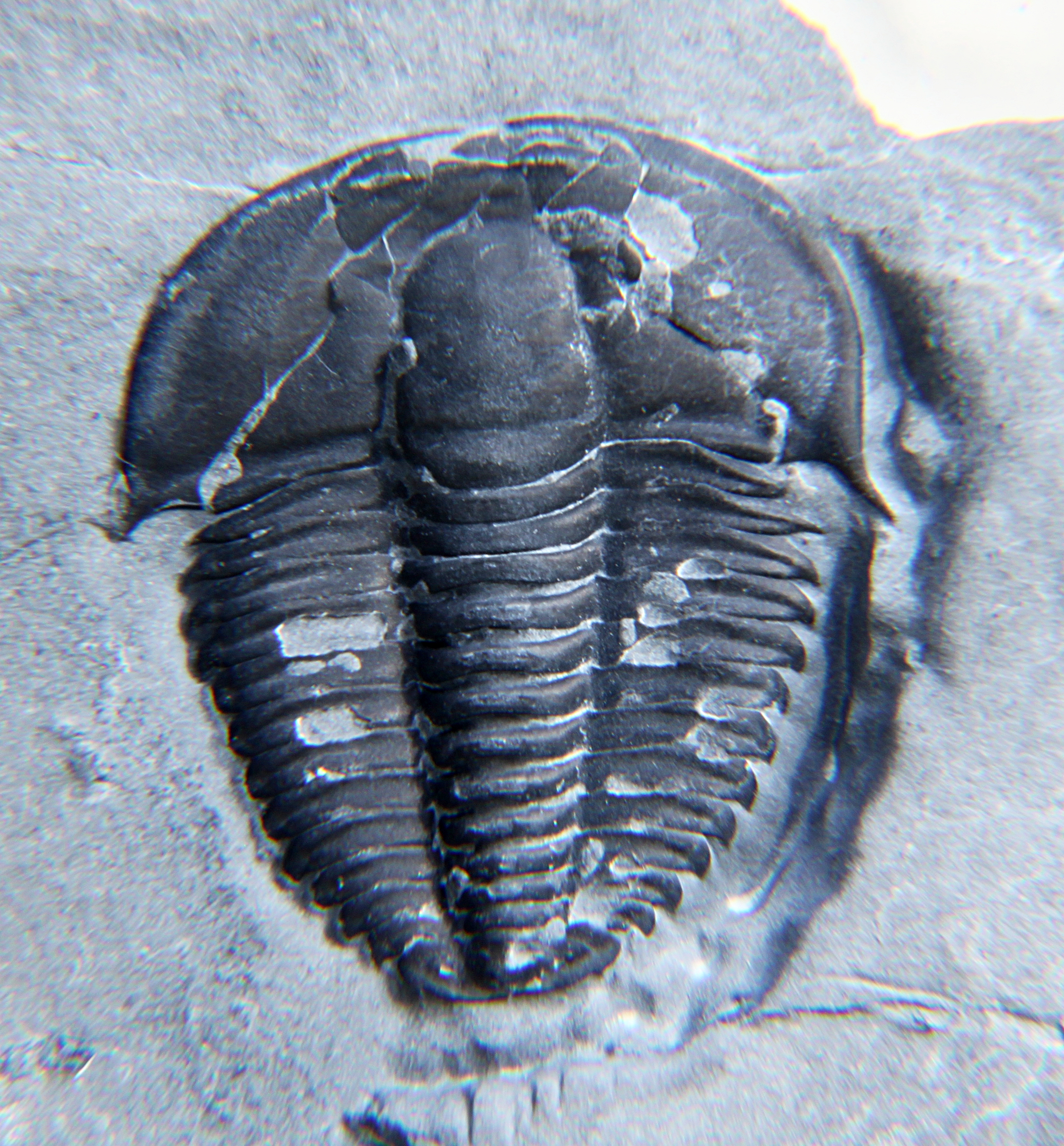 A Kendallina unnamed species trilobite, 18mm, Order Ptychopariida, Family Parabolinoididae, from the Tanglefoot site, McKay Group Formation, Bull River Valley, near Cranbrook British Columbia Canada, Upper Cambrian